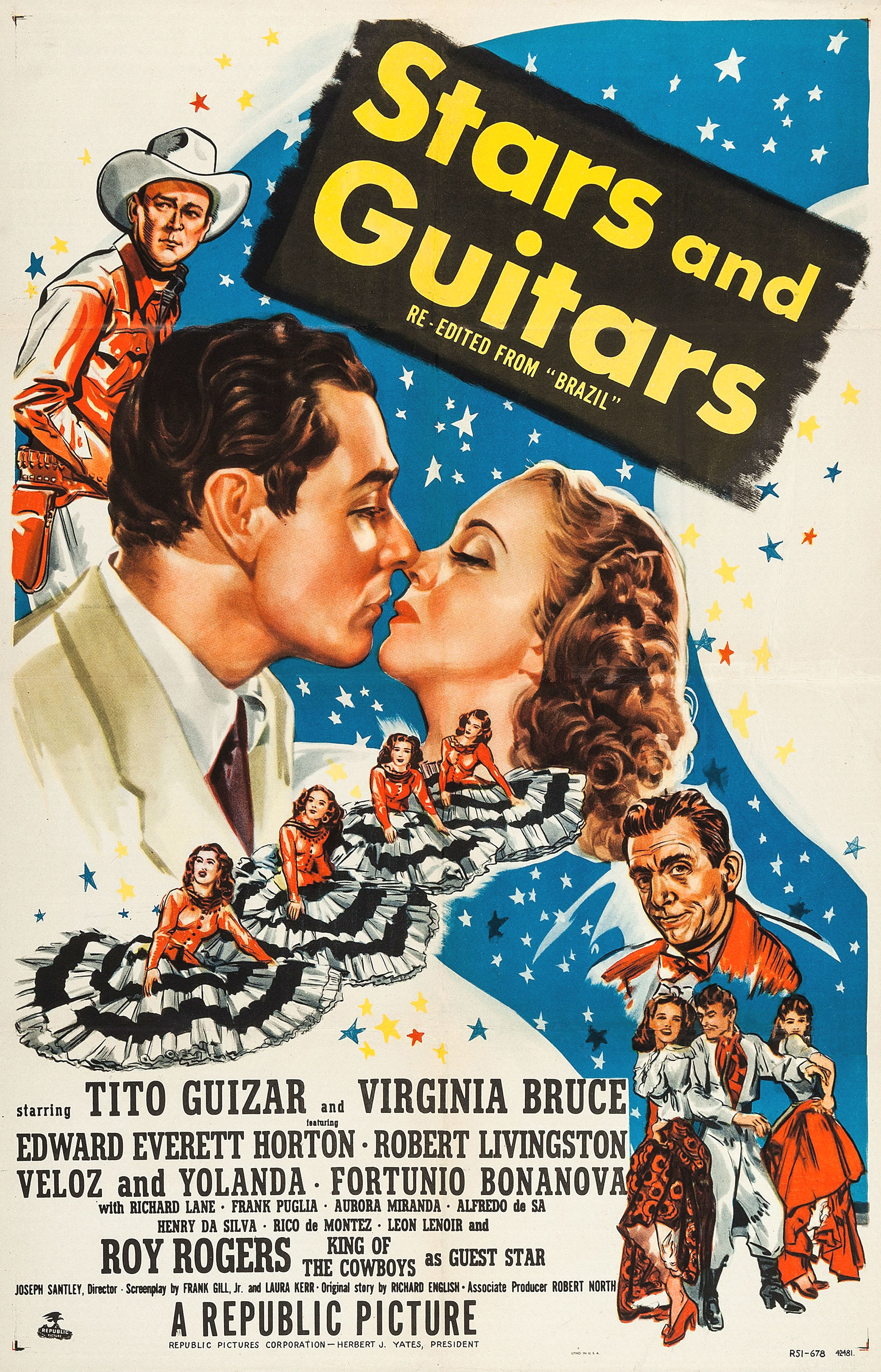 Poster for the 1944 film Brazil Also known as Stars and Guitars. The item has no copyright markings on it as can be seen in the links above. At bottom is Litho in USA, R51/678 and 42481. These look to be associated with the printing of the poster.